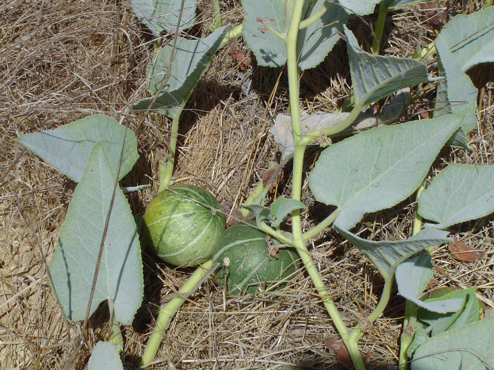 Cucurbita foetidissima — A pair of buffalo gourds, or Calabazilla Growing in the Puente Hills, Los Angeles County, California.